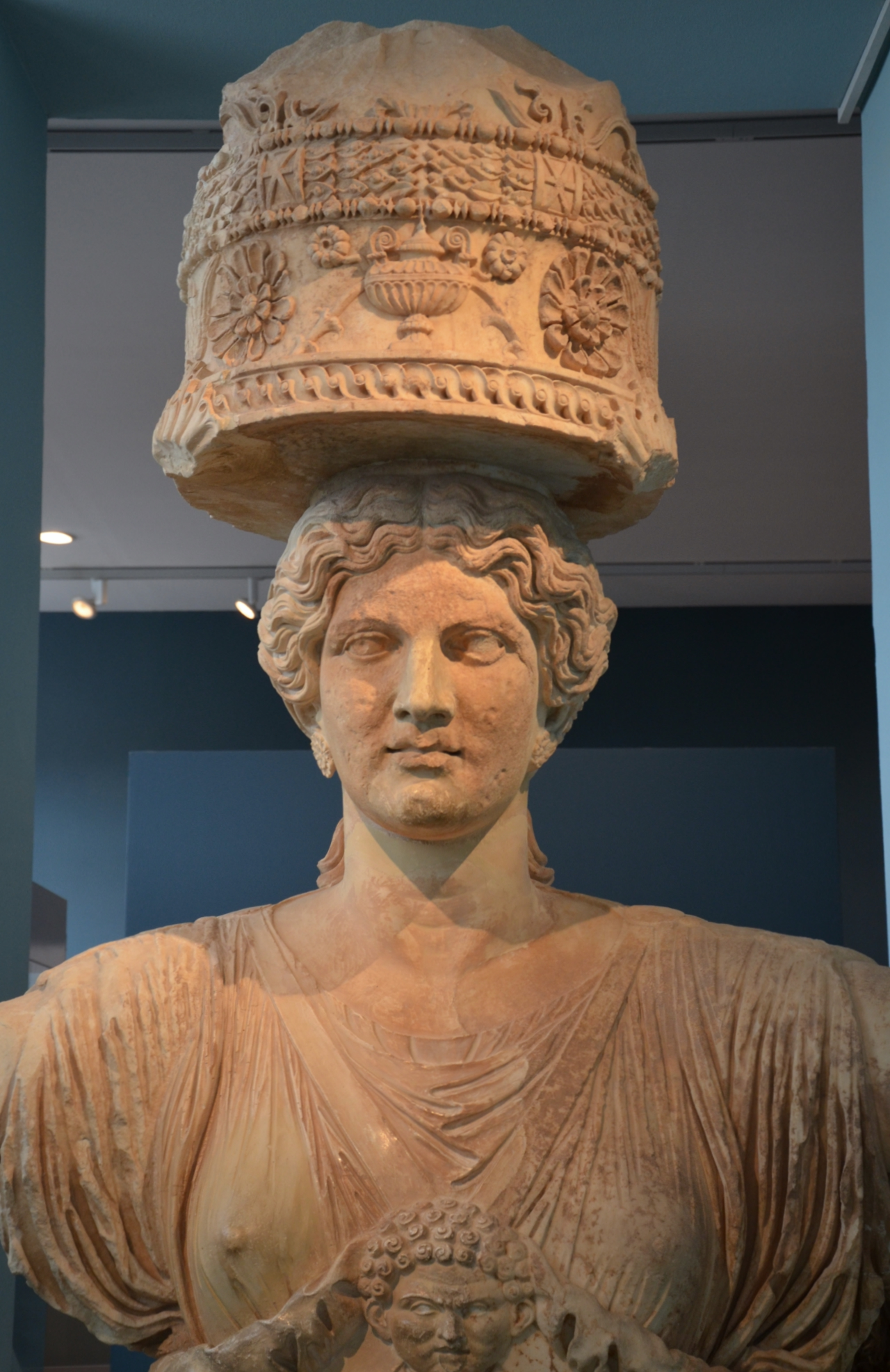 The upper part of one of the caryatids that flanked the Lesser Propylaea of Eleusis, made in Attica in about 50 BC, Eleusis Museum